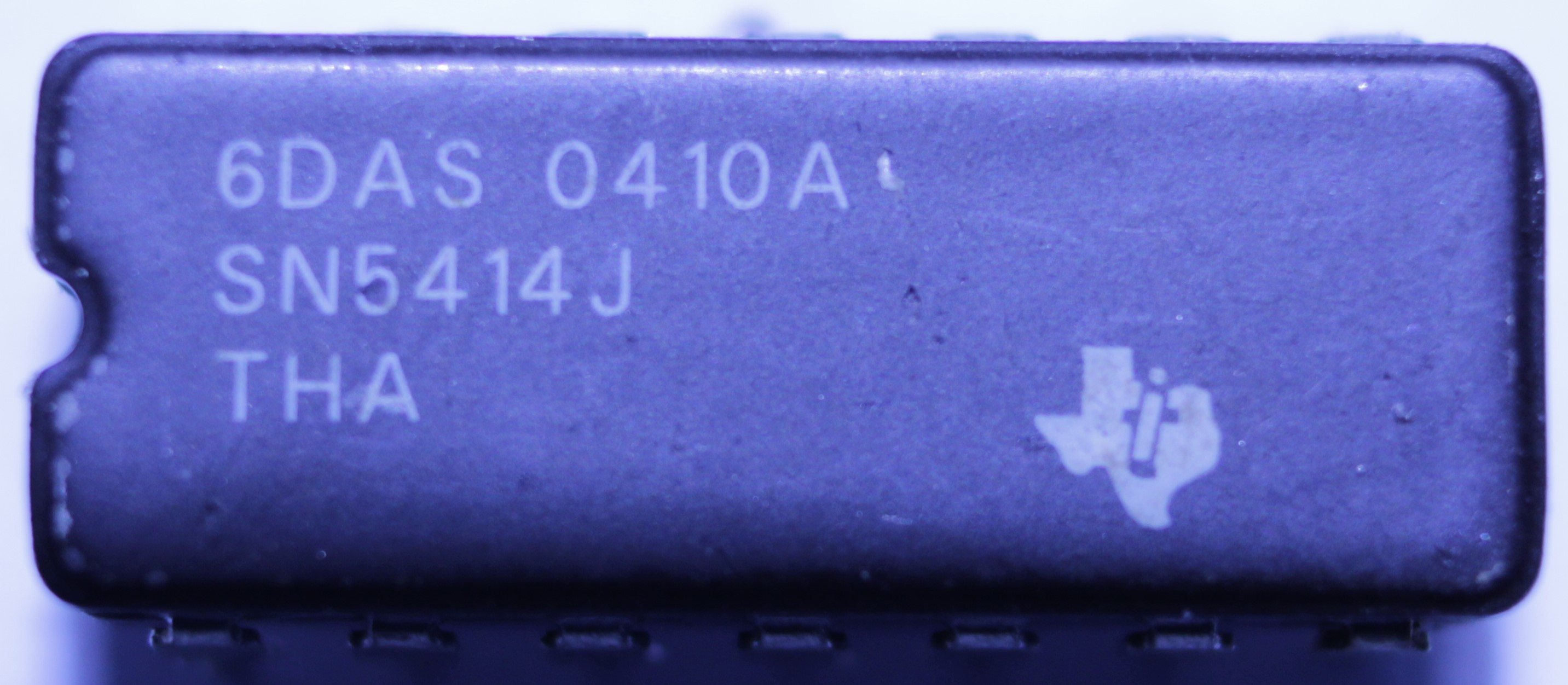 Top of package of the Texas Instruments 5414 chip, datecode 0410